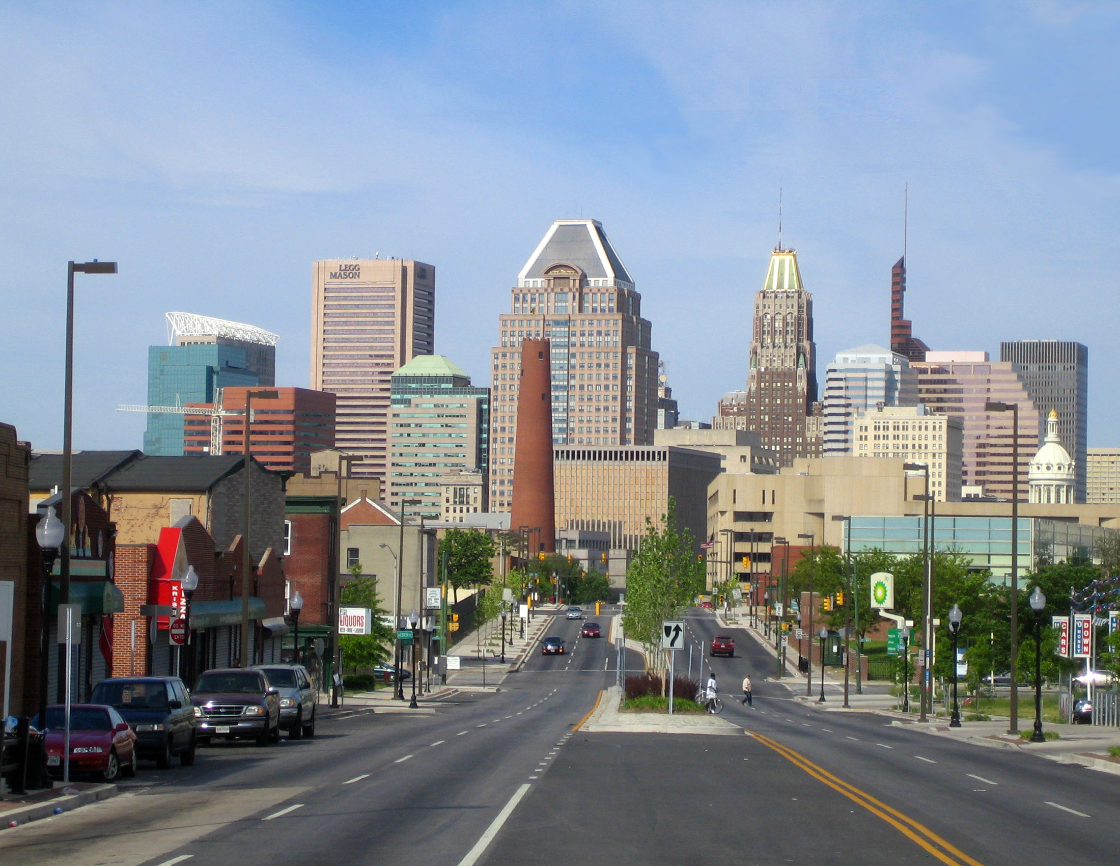 A view of Downtown Baltimore from the East, on Fayette St. The intersection in the distance is where Fayette St. crosses President St., which becomes the Jones Falls Expressway on the opposite side of the intersection.